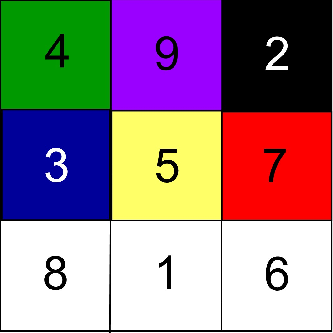 Nine astrological stars with colours in magic square